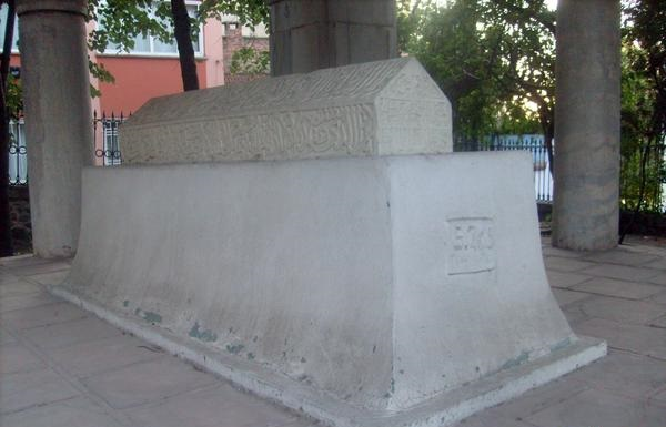 The tomb of Devlet Hatun located inside the mausoleum of Devlet Hatun in Bursa.